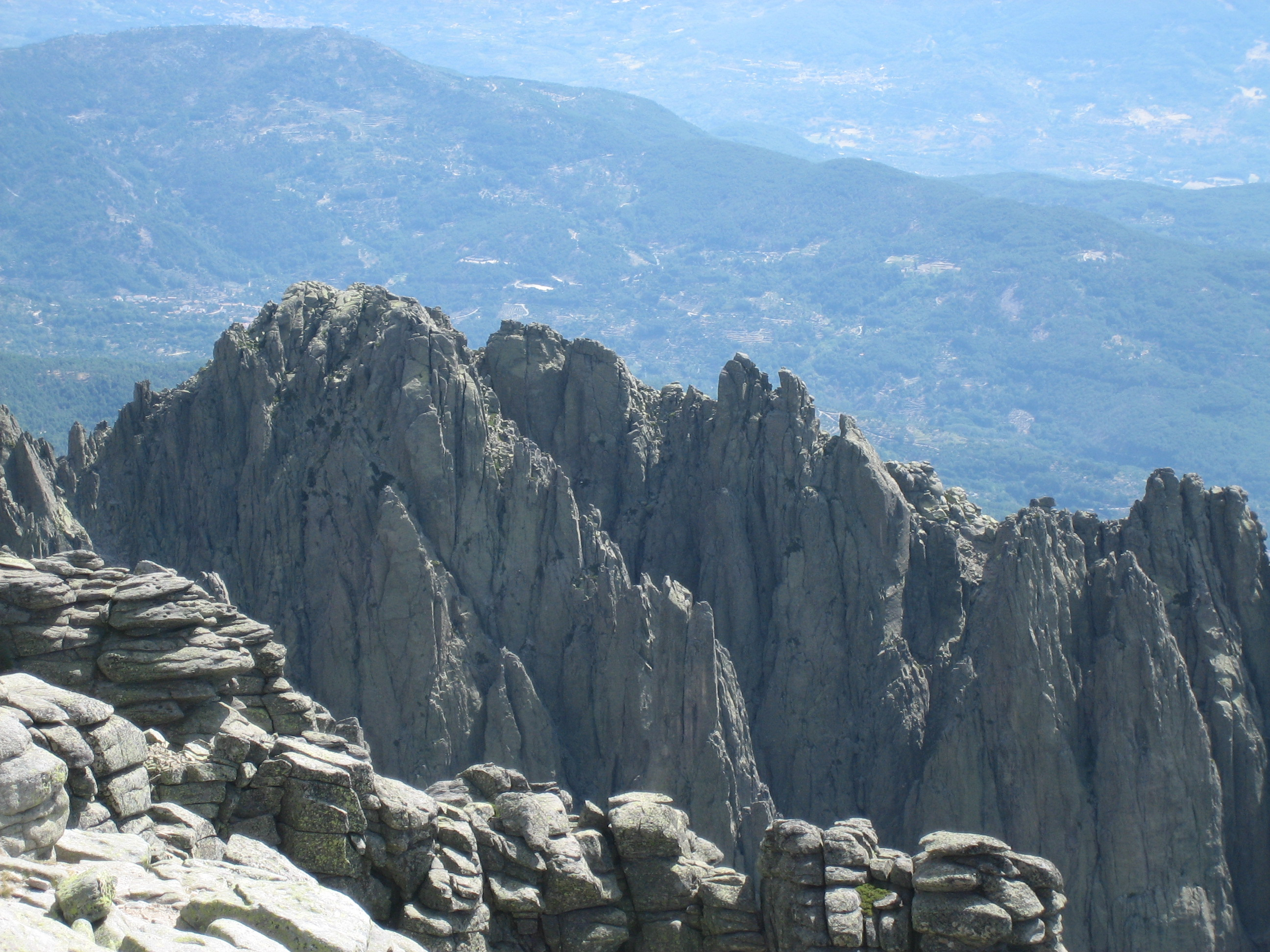 Los Galayos mountains from Sierra de Gredos (Spain).